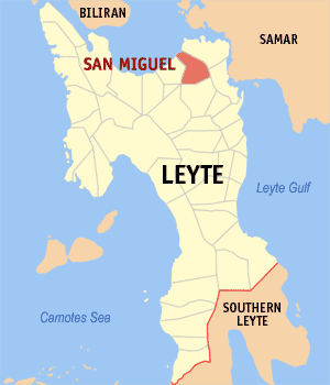 Map of Leyte showing the location of San Miguel